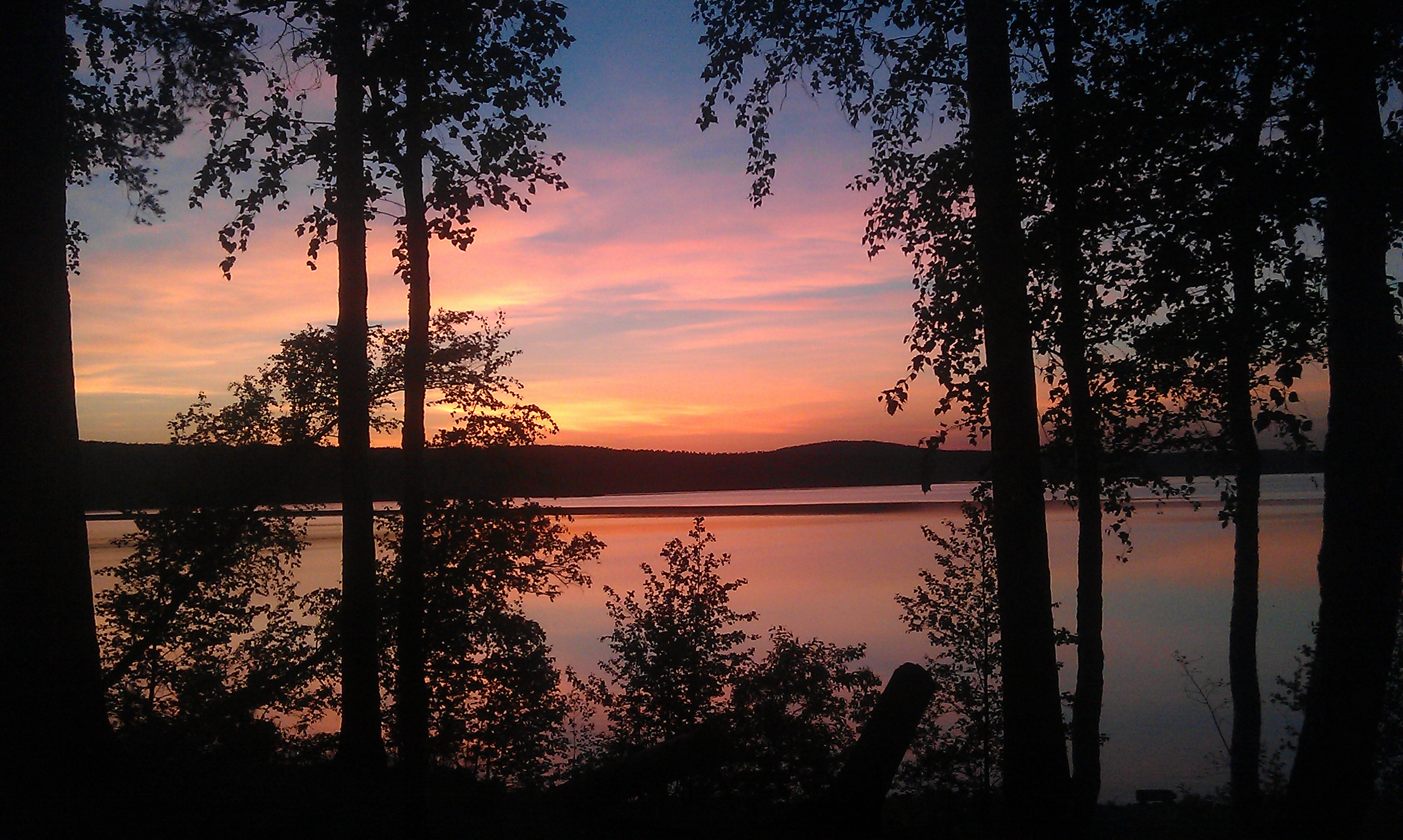 закат на озере Синара